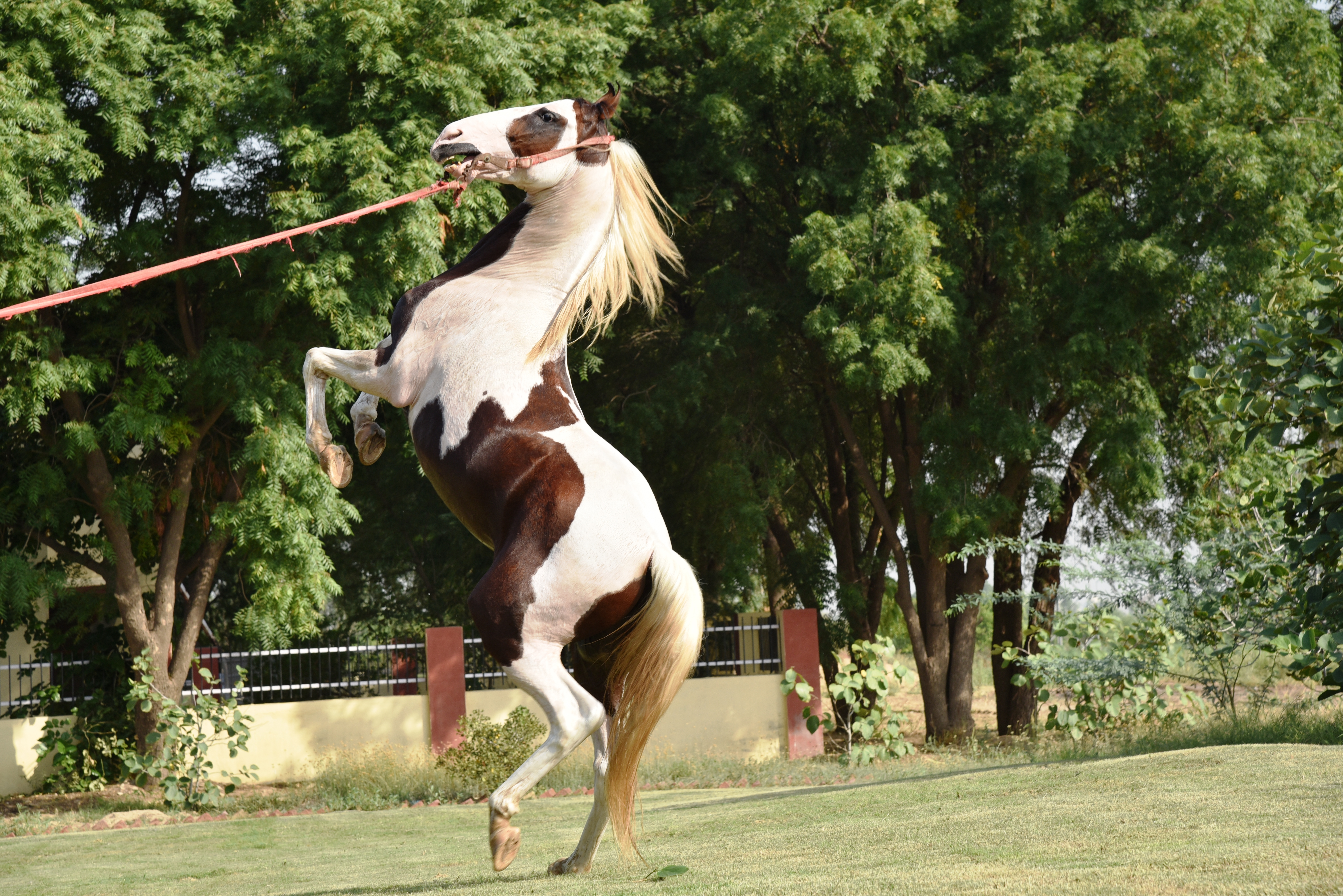 Rihtik is one of our best Marwari Stallion. The semen of this elite stallion is available for breeding the Marwari Mares.